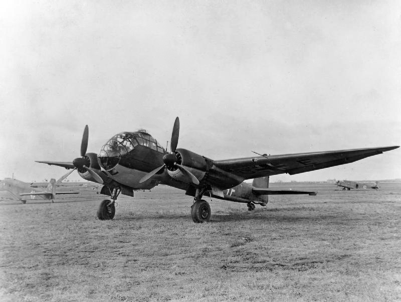 A German Luftwaffe Junkers Ju 188 E-1 (Wk.Nr.10001) - the first production aircraft of the Ju 188 series. The Ju 188 was a development of the Ju 88 bomber, entering service in May 1943. Note the Junkers Ju 52/3m transports in the background.